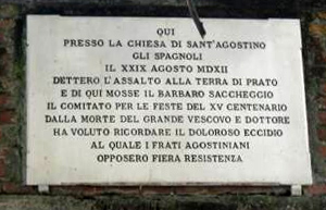 Memorial plaque of the Sac of Prato by the spaniards, on August 29th, 1512